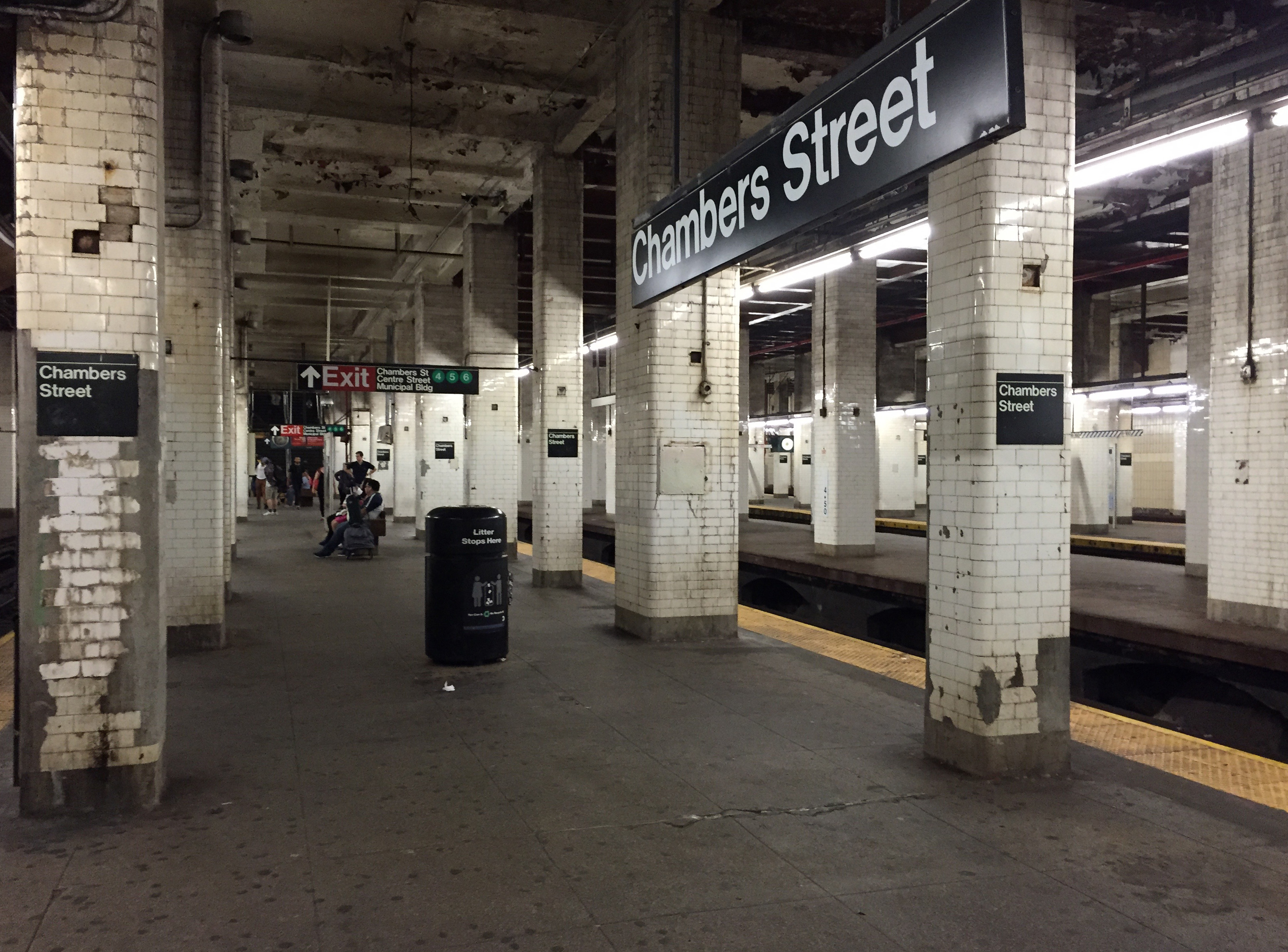 J/Z platform at Chambers Street